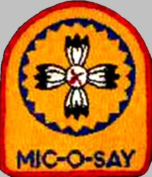 Logo of the Tribe of Mic-O-Say, Pony Express Council, Boy Scouts of America.